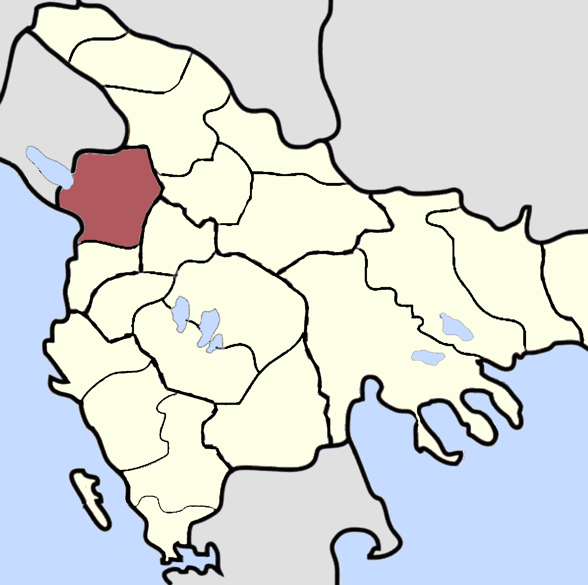 XY Sanjak, Ottoman Empire (late 19th century). Source: The Crescent and the Eagle- Ottoman Rule, Islam and the Albanians, 1874-1913 at Google Books By George Gawrych